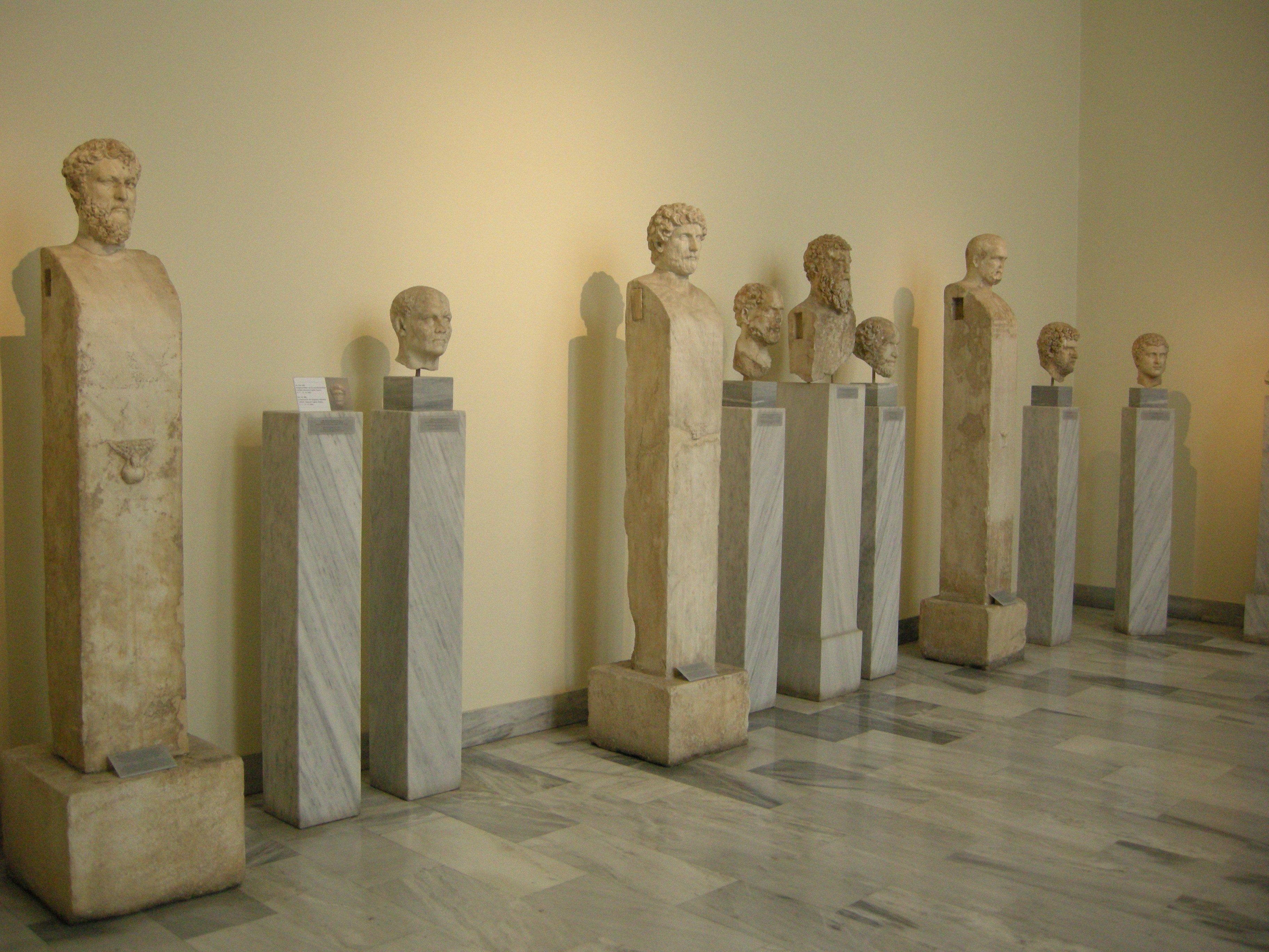 Ancient Roman busts in the National Archaeological Museum of Athens